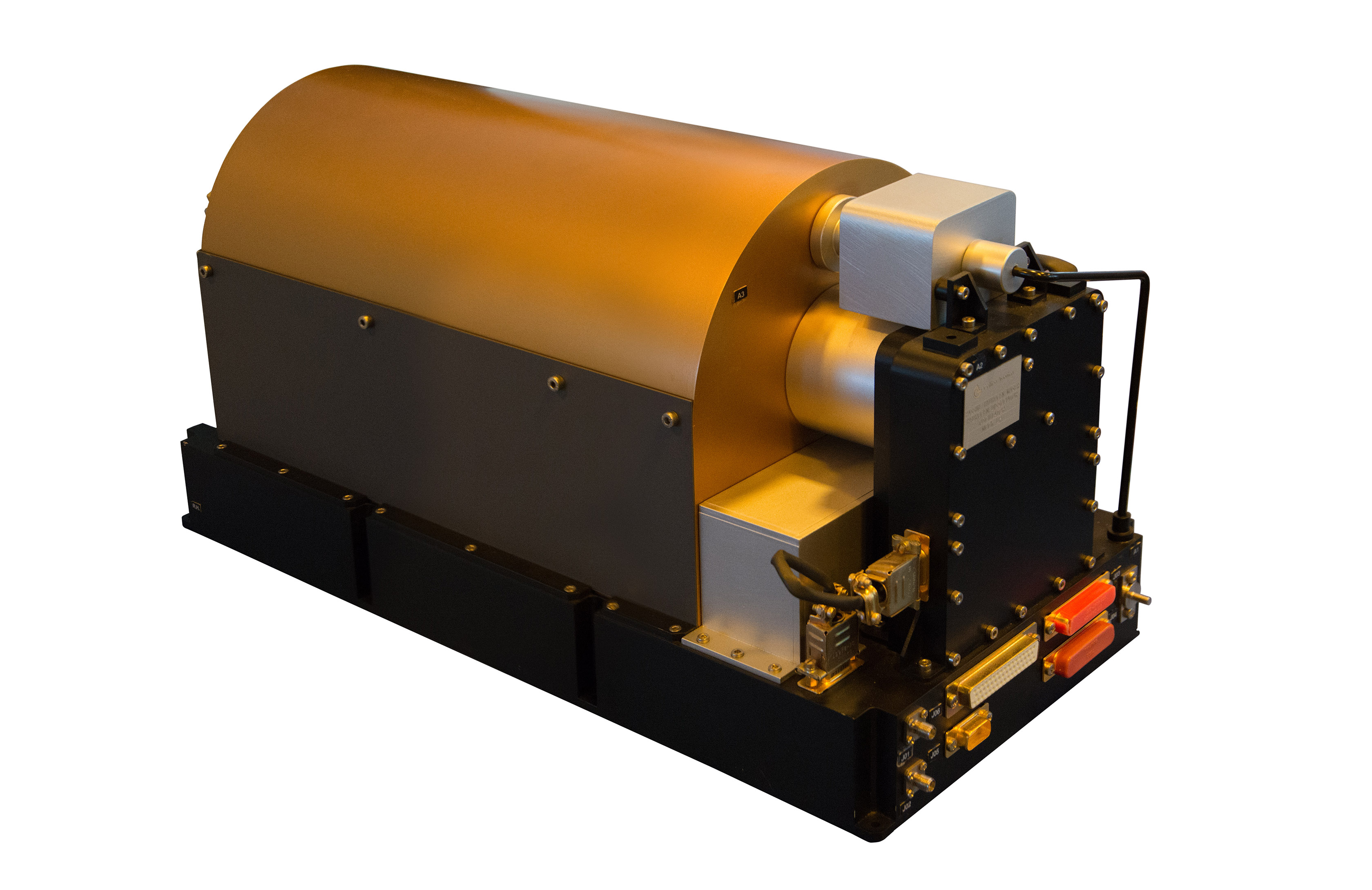 Space Passive Hydrogen Maser used in ESA Galileo satellites as a master clock for an onboard timing system. This atomic clock type uses the ultra stable 1,420,405,751.7667 hertz (Hz) transition in a hydrogen atom to measure time to within 0.45 nanoseconds over 12 hours. A timing error of 1 nanosecond or 1 billionth of a second (10−9 or 1/1,000,000,000 s) results in a 29.9792458 cm (11.8 in) positional error on Earth's surface. weight: 18 kg volume: 45 liters lifetime: 20 years All the onboard clocks are mounted to the side of the hull kept in shadow, to minimise any temperature-based effects on performance.